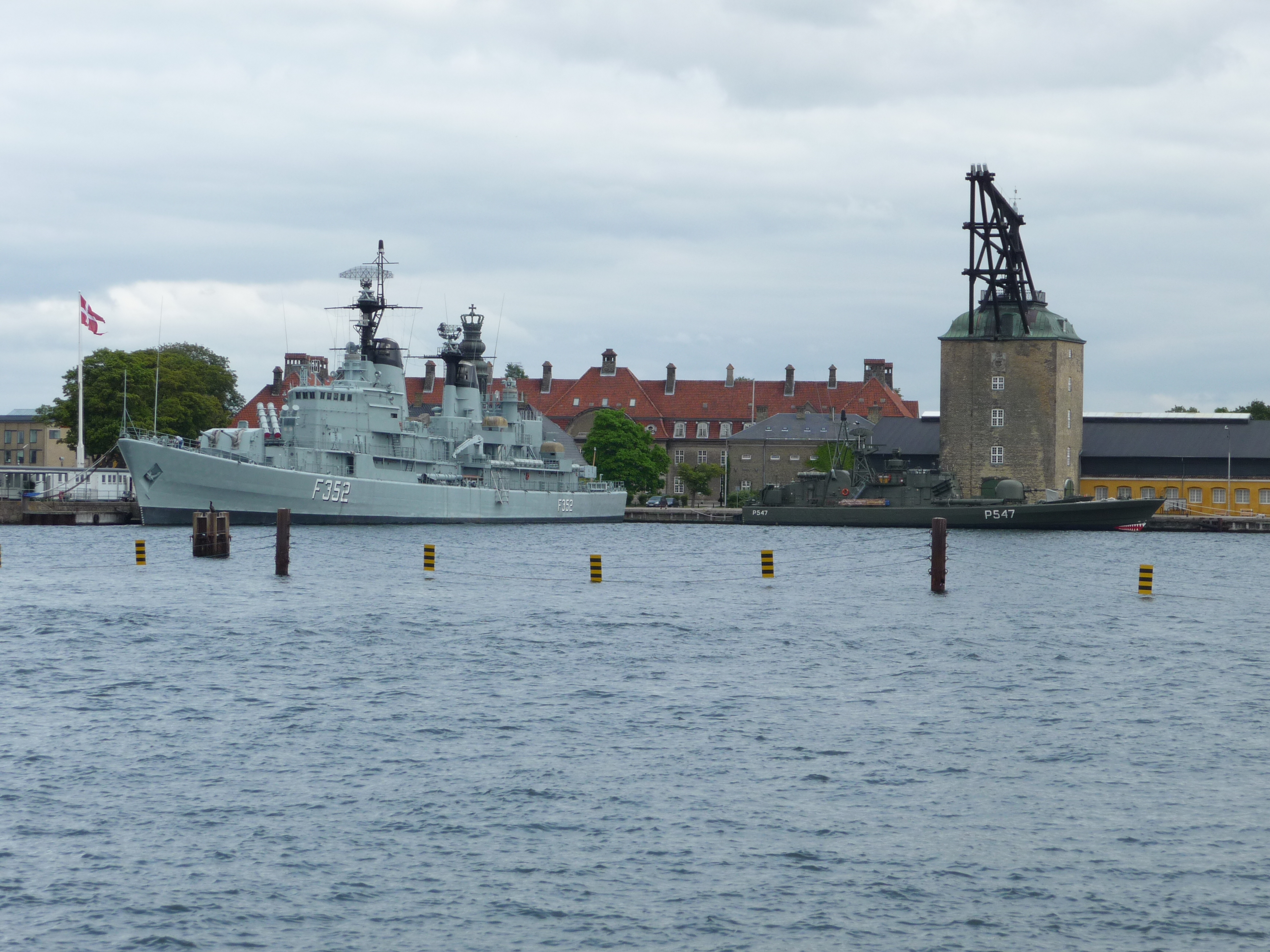 The museum ship Peder Skram next to the Masting Sheer at Holmen in Copenhagen, Denmark